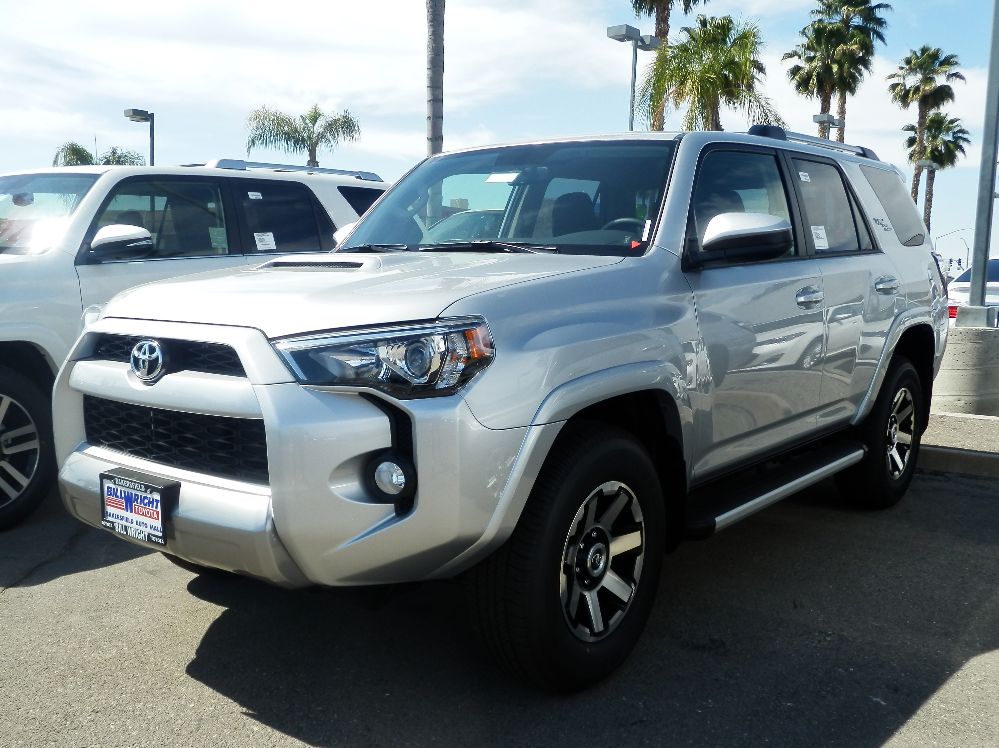 Toyota 4Runner in Bakersfield